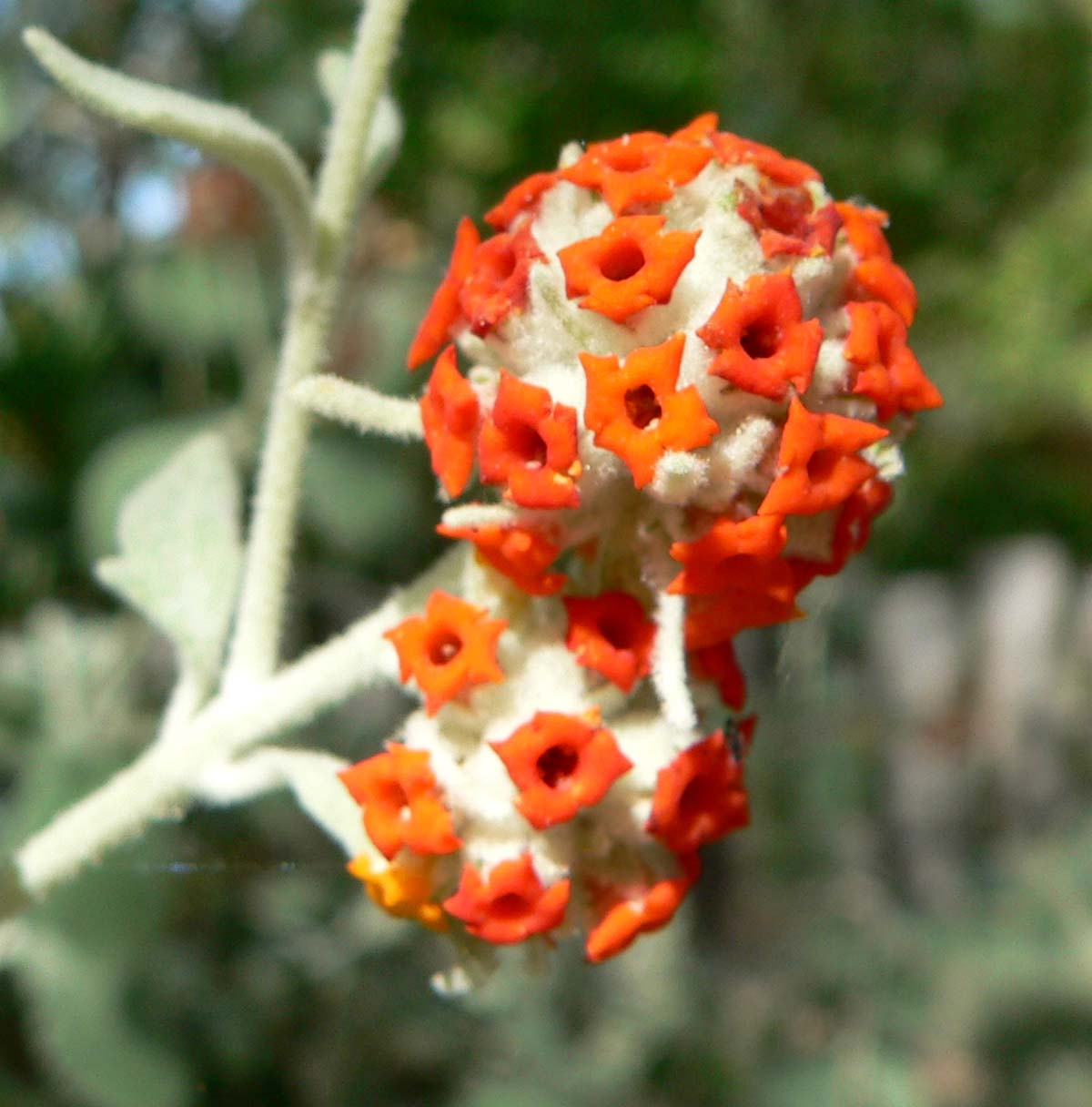 Photo of Buddleja marrubifolia flowers at the Springs Preserve garden in Las Vegas, Nevada